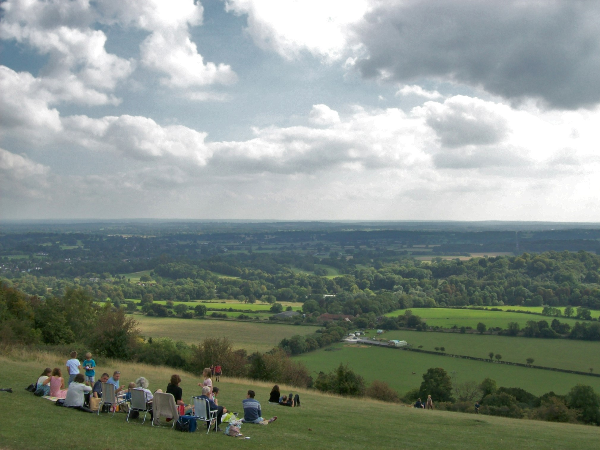 View from Box Hill, looking South